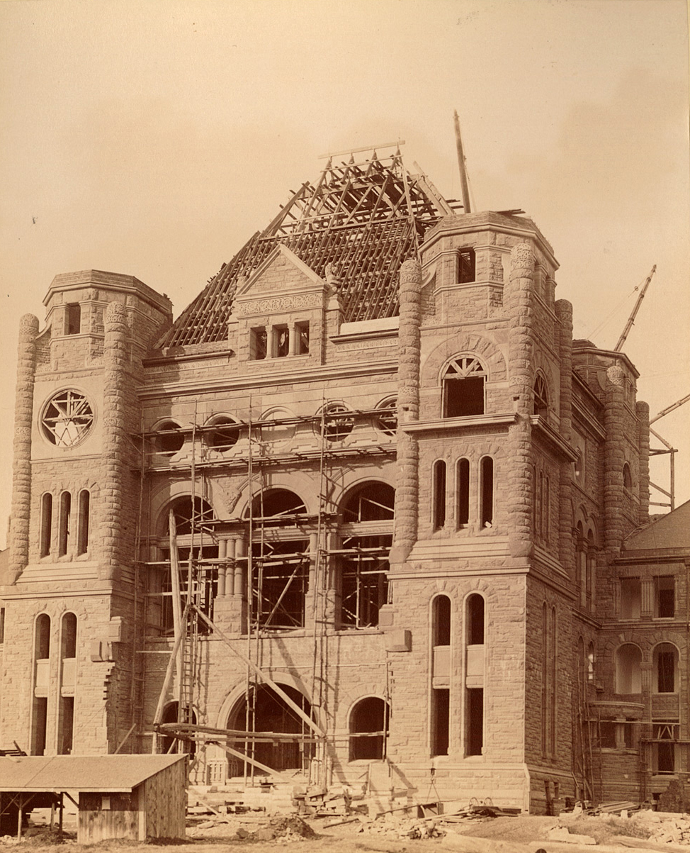 Ontario legislative building under construction, Toronto, Canada